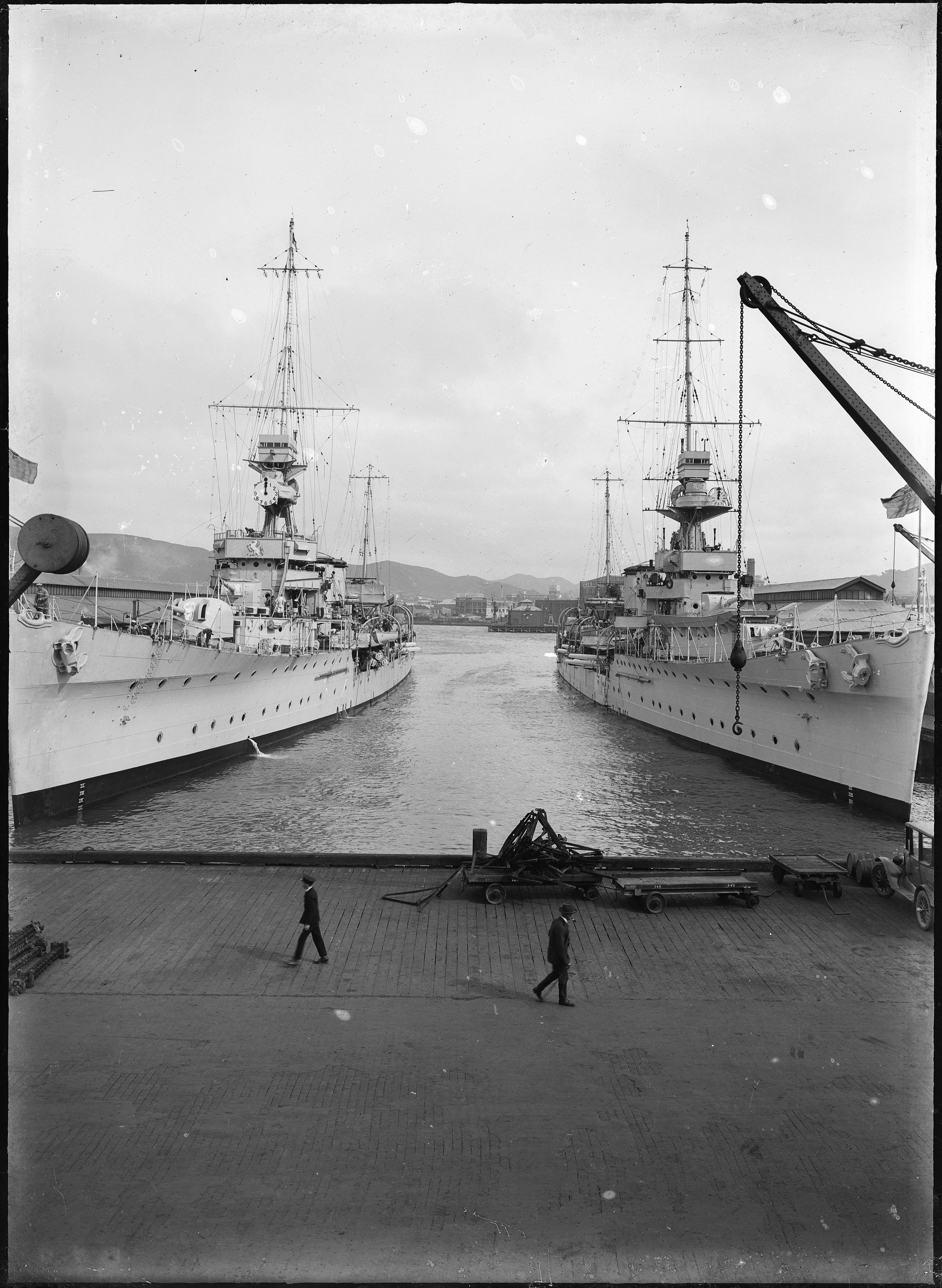 Photographer: William Hall Raine (1892-1955)[1] Warships Diomede and Dunedin, berthed in Wellington, ca 1928 Reference number: 1/2-100601-G Glass negative Photographic Archive, Alexander Turnbull Library